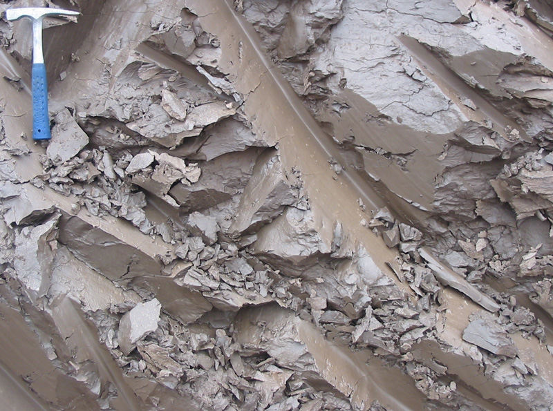 Quaternary clay in Estonia (400 000 years old)